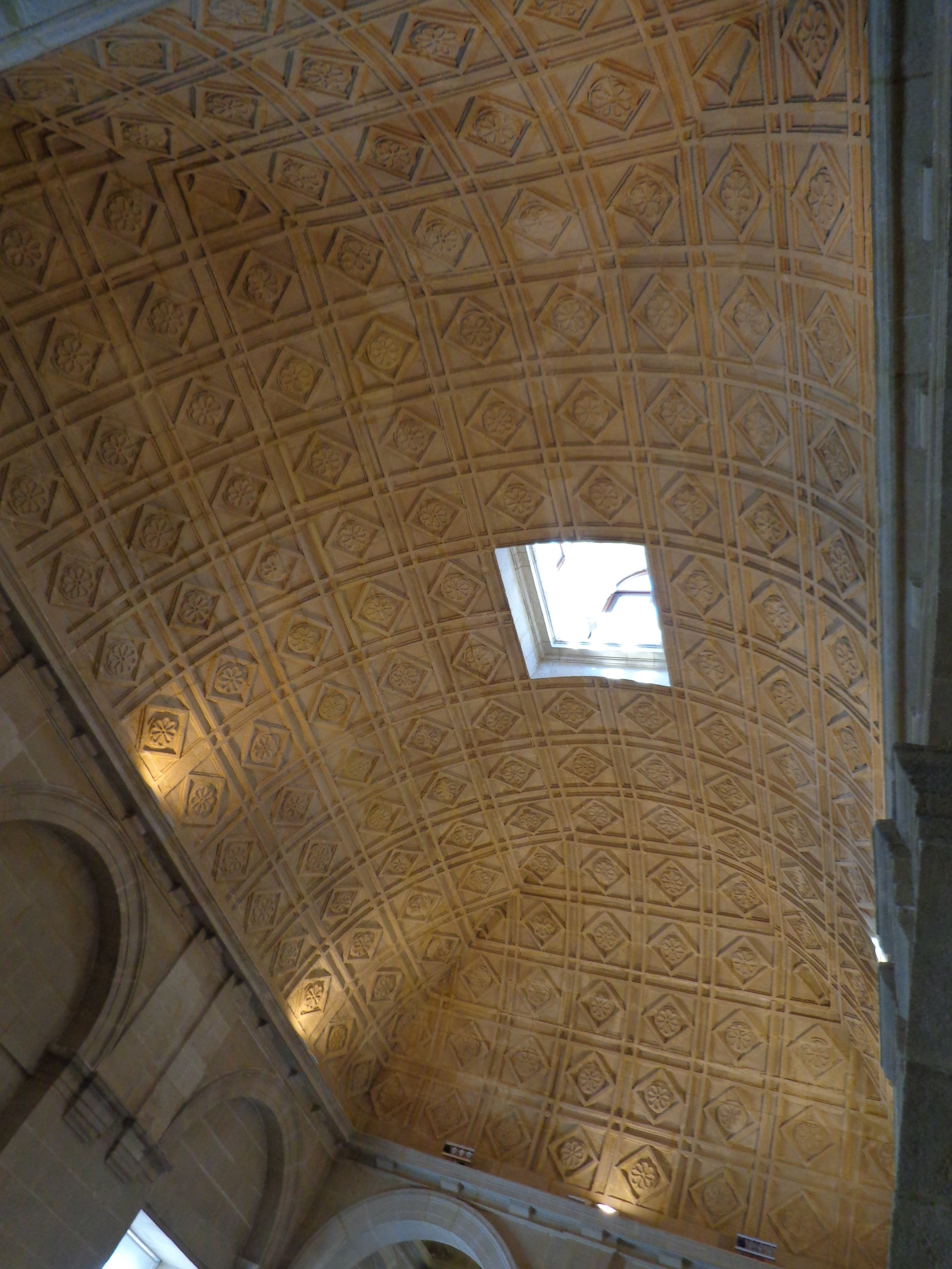 Interior of Archivo de Indias, Seville